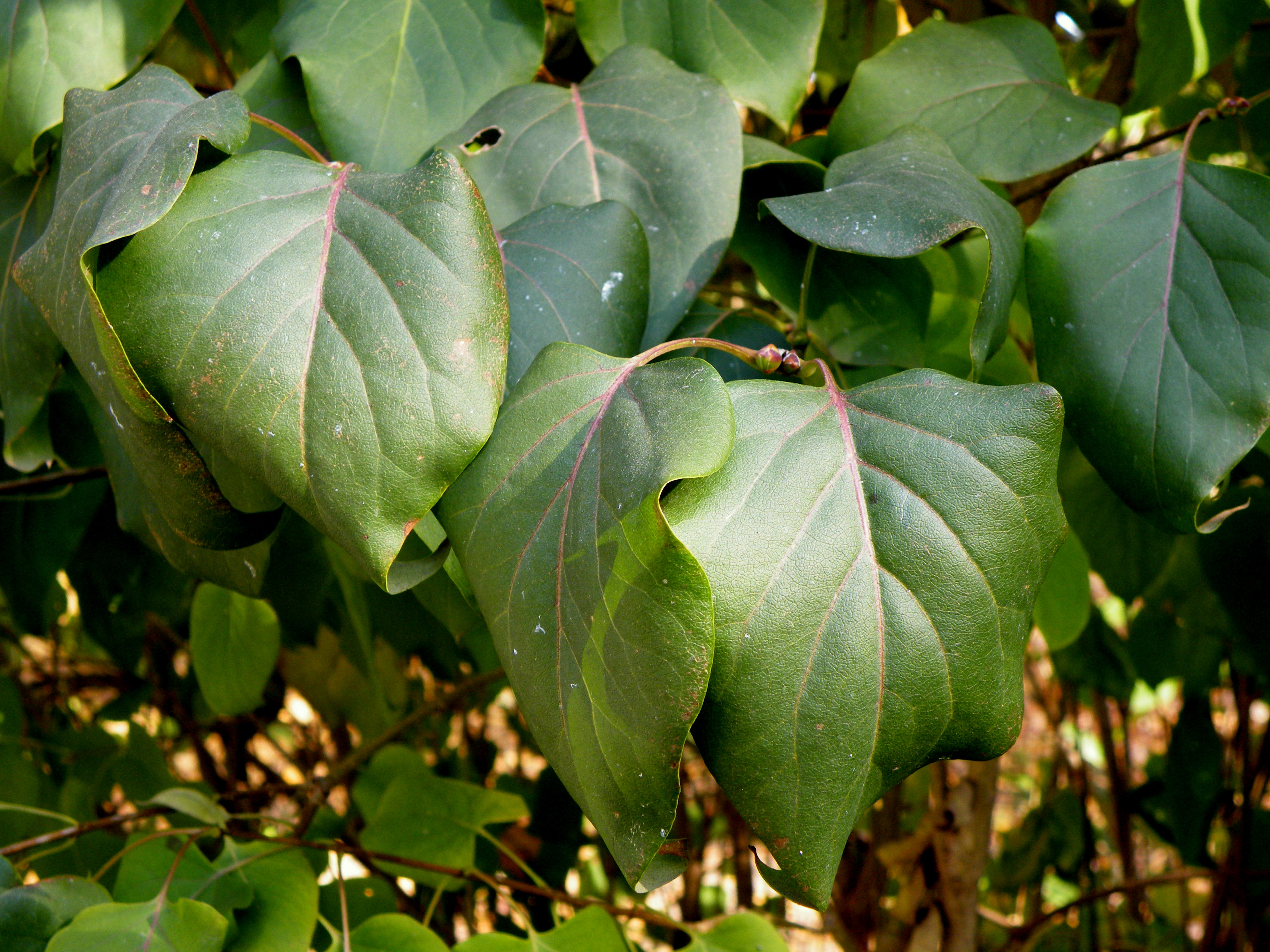 Syringa vulgaris (lilac or common lilac) is a species of flowering plant in the olive family Oleaceae, native to the Balkan Peninsula, where it grows on rocky hills. This media file is produced by Wikipedian in Residence in Botanical Garden Jevremovac in 2015.